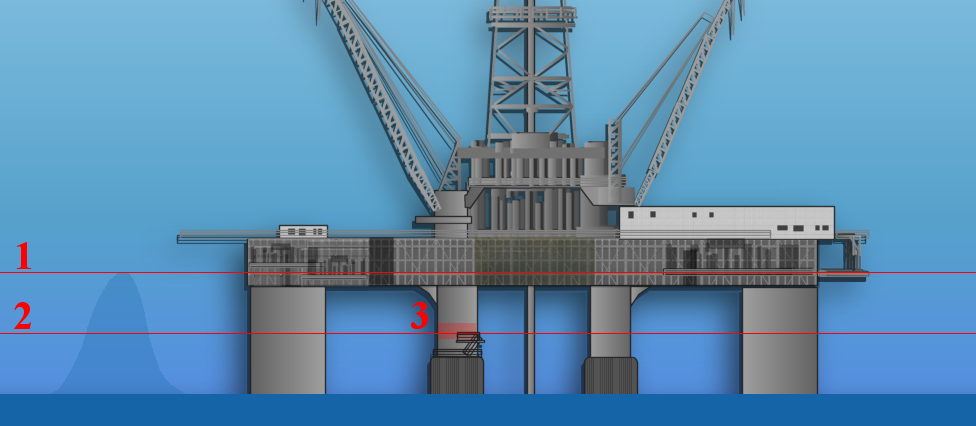 Ocean Ranger was at the time of its sinking the largest oil platform in the world. A wave at least 28 feet (8.5m) high broke portlights in the ballast control room, flooding it, and disabling the system. Hours later a combination of poor weather and ill trained attempts to fix the ballast system resulted in the rig capsizing.1 - Draupner wave height for comparison.2 - 28 ft/8.5 m ballast control room's level above the sea3 - Location of the room itself